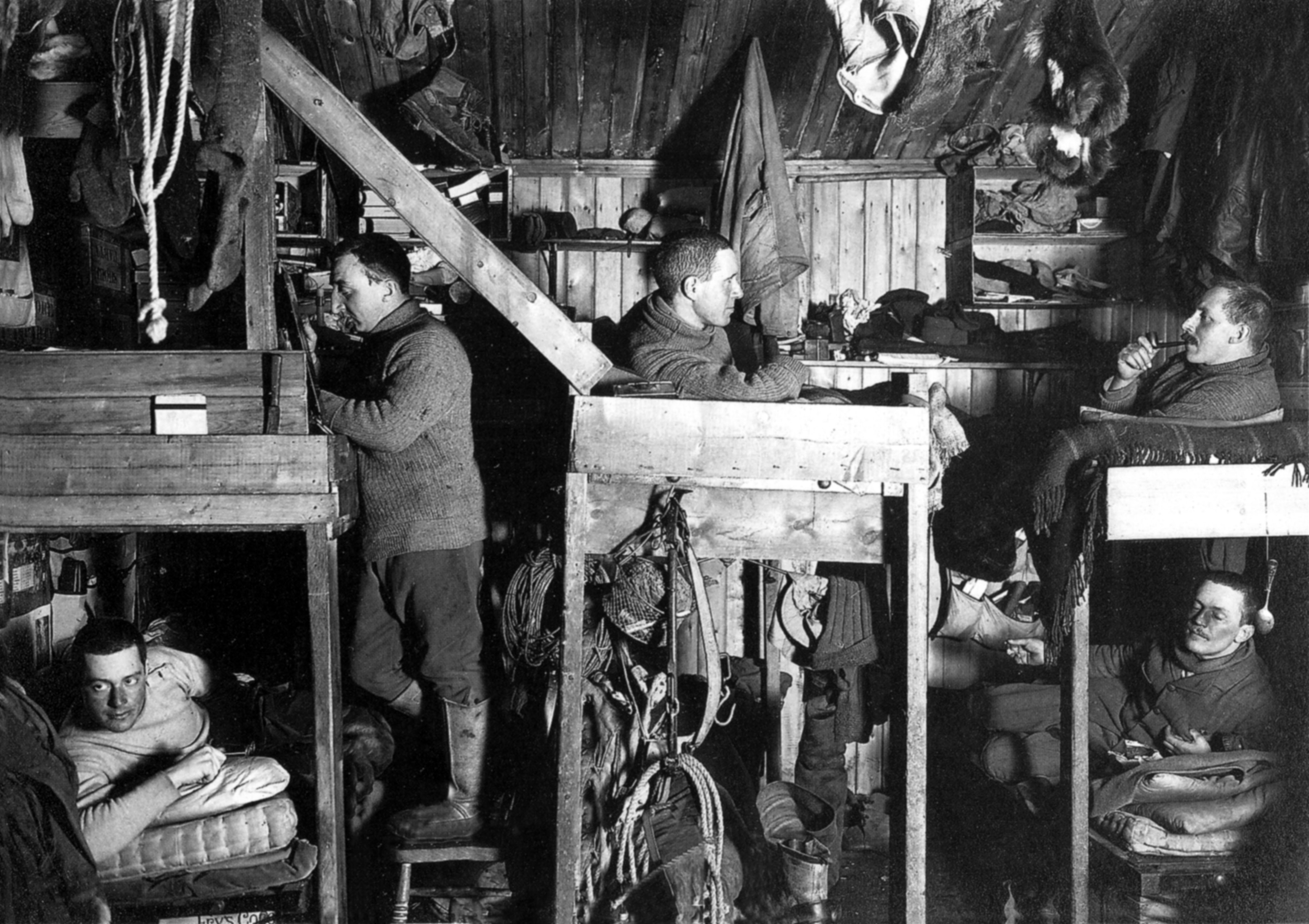 Photograph from Scott's last expedition Terra Nova (1910-1913) showing the interior of the hut at Cape Evans with Cherry-Garrard, Bowers, Oates, Meares and Atkinson.